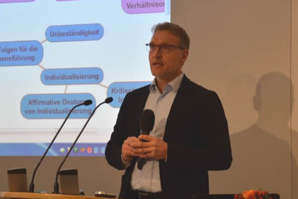 Jan V. Wirth at the lecture at Diakonie Austria, 25.09.2015